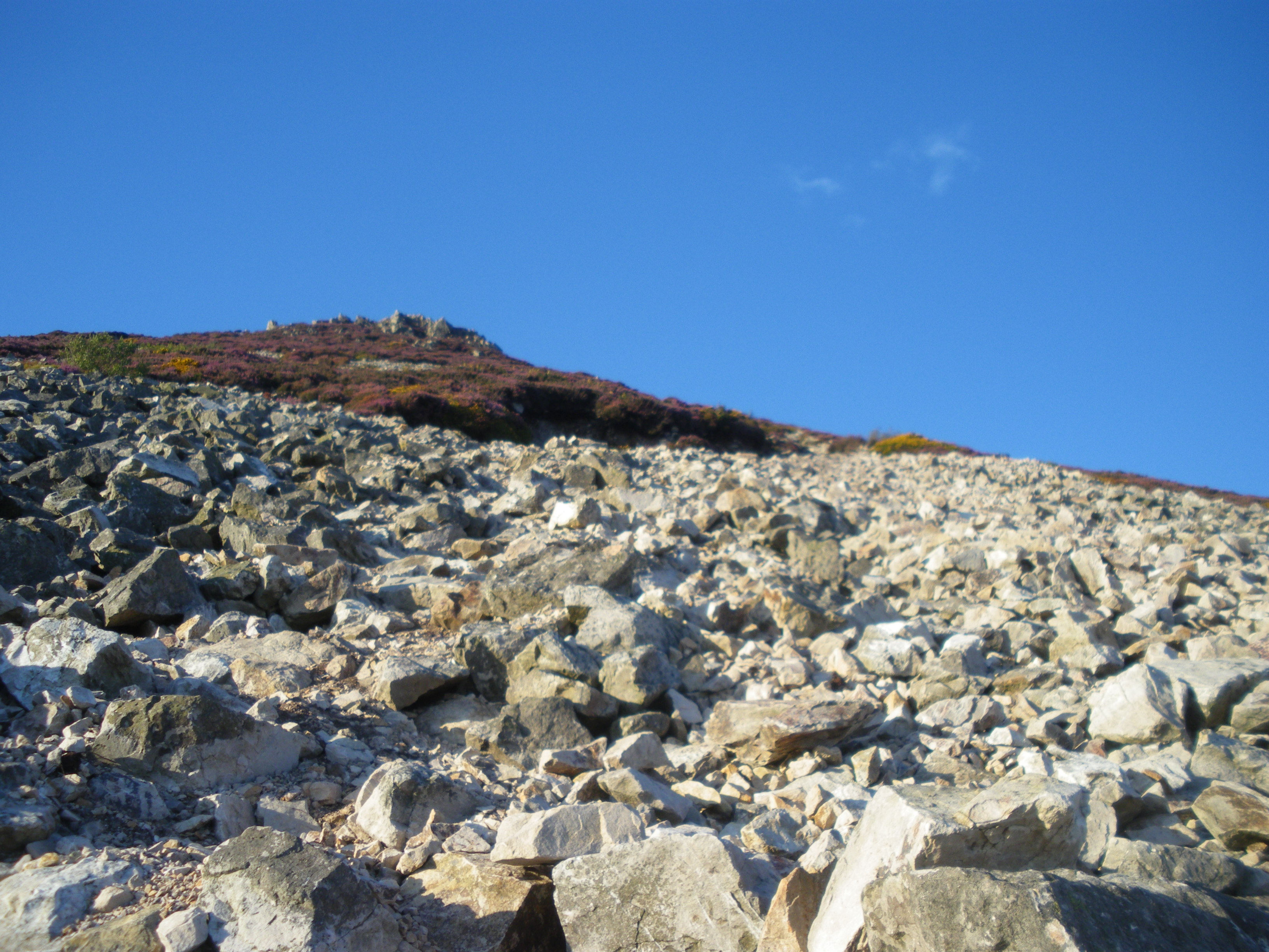 Great Sugar Loaf